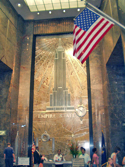 Lobby of the Empire State Building